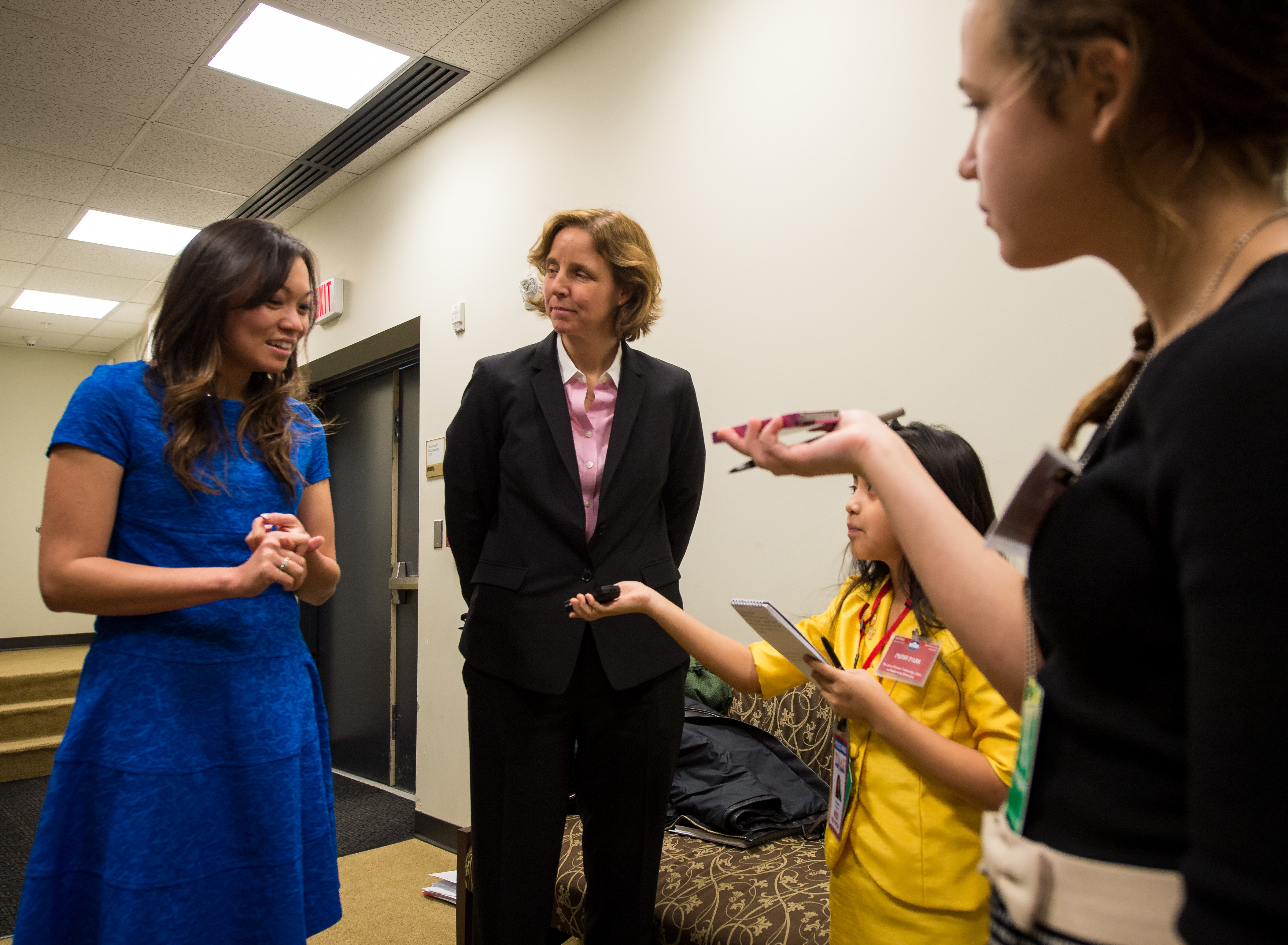 Kathy Pham of U.S. Digital Service, left, and United States Chief Technology Officer (CTO) Megan Smith answer questions from kid reporters prior to the annual White House State of Science, Technology, Engineering, and Math (SoSTEM) address, Wednesday, Jan. 21, 2015, in the South Court Auditorium in the Eisenhower Executive Office Building on the White House complex in Washington.